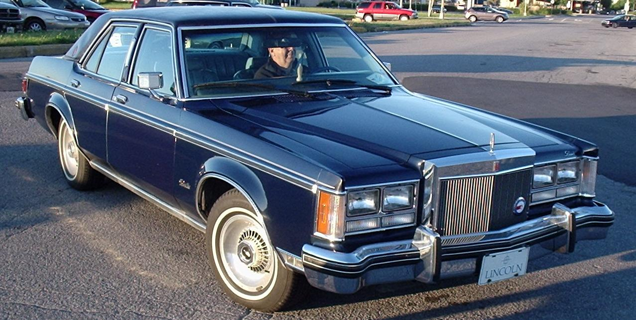 1978 Lincoln Versailles photographed in Laval, Quebec, Canada at Les chauds vendredis.